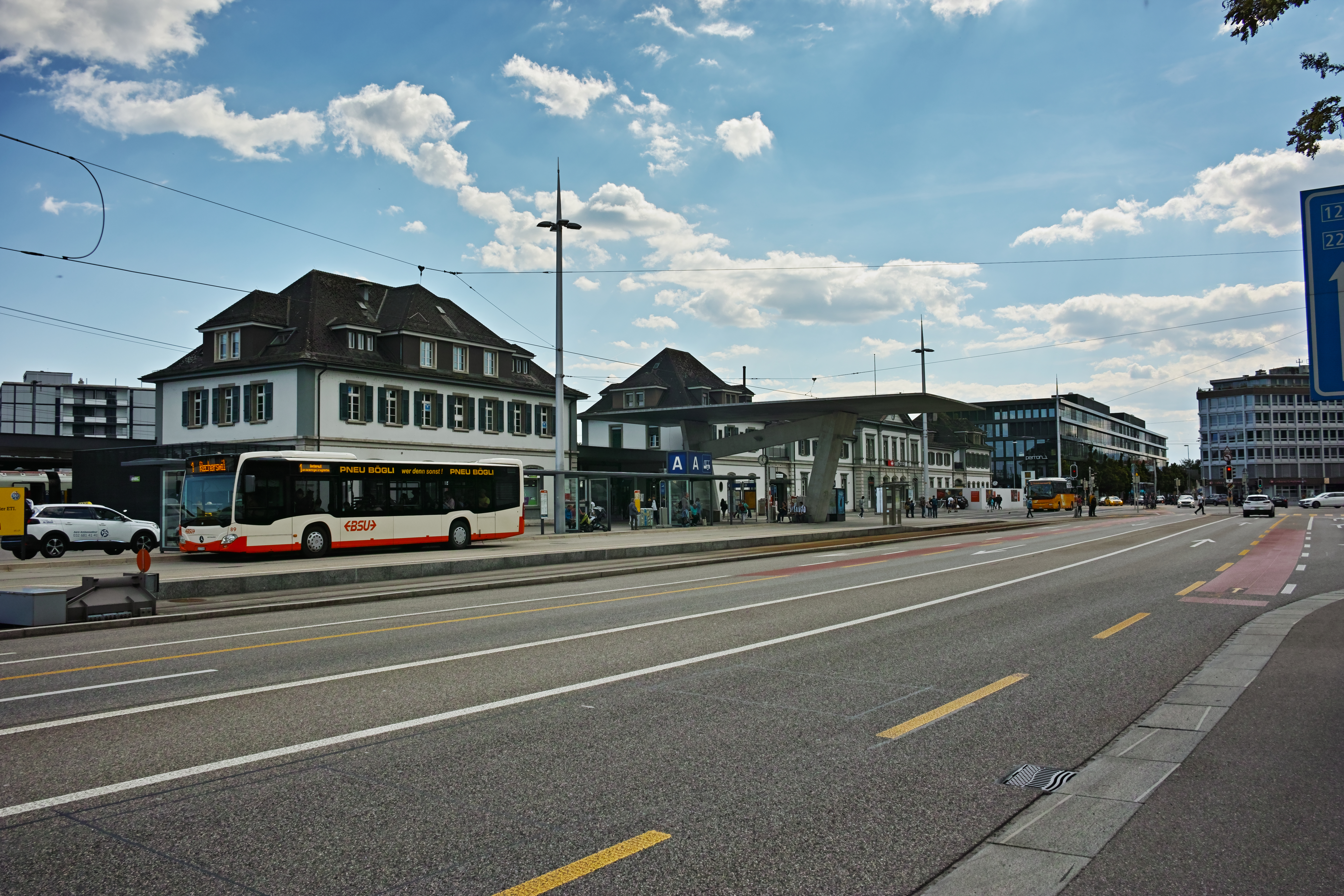 The main railway station of Solothurn, Switzerland. The station's name officially just being "Solothurn", it's often called "Hauptbahnhof" (main station) to differentiate between this and other stations in Solothurn (Solothurn West, Solothurn Allmend). There is a metre gauge railway track adjacent to the street belonging to "Aare Seeland mobil" (formerly "Solothurn-Niederbipp-Bahn"). To the left a bus of BSU ("Busbetrieb Solothurn und Umgebung").